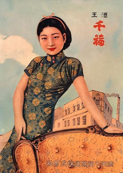 Poster of Manshu Senpuku during Manchukuo era